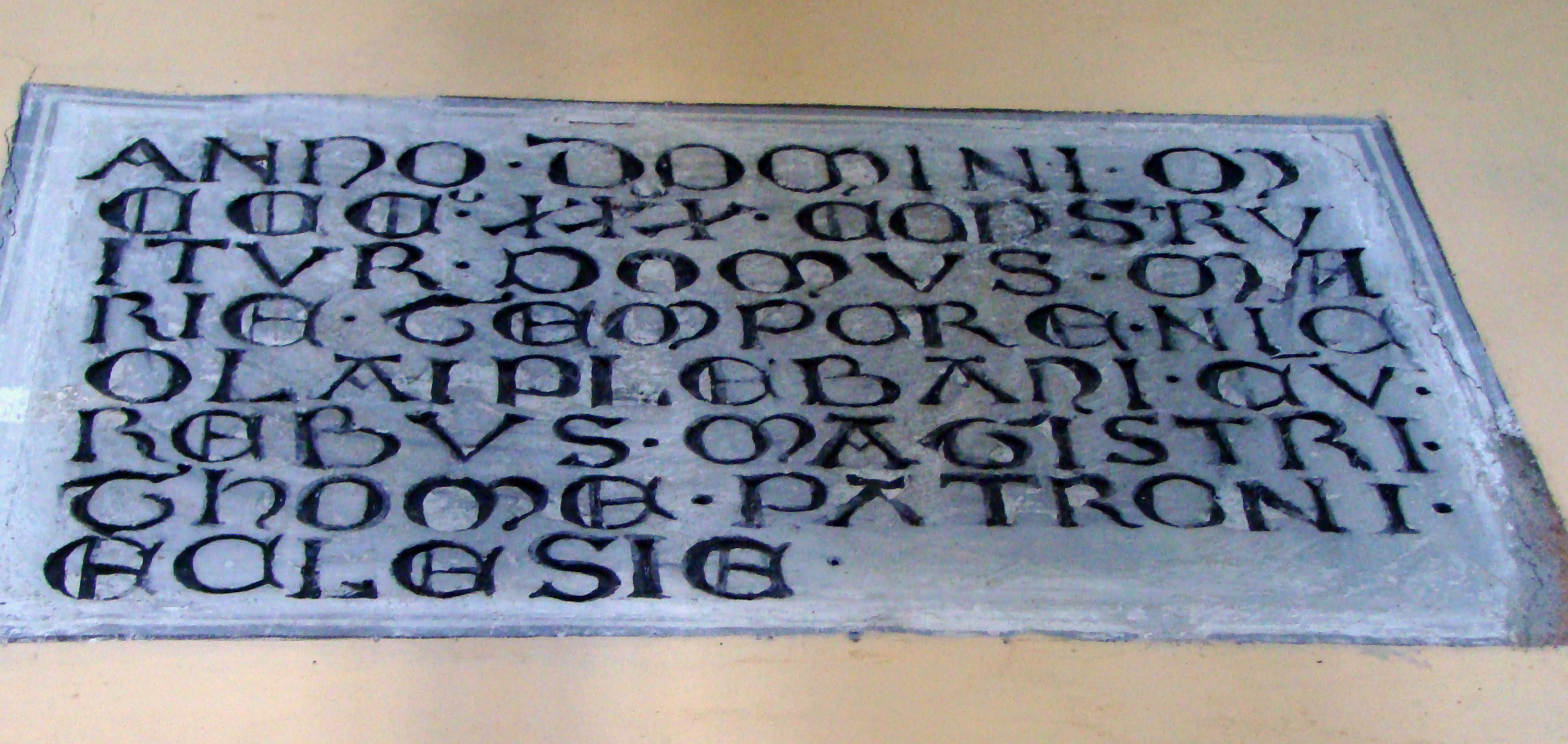 Lutheran church in Reghin, Mureş county, Romania